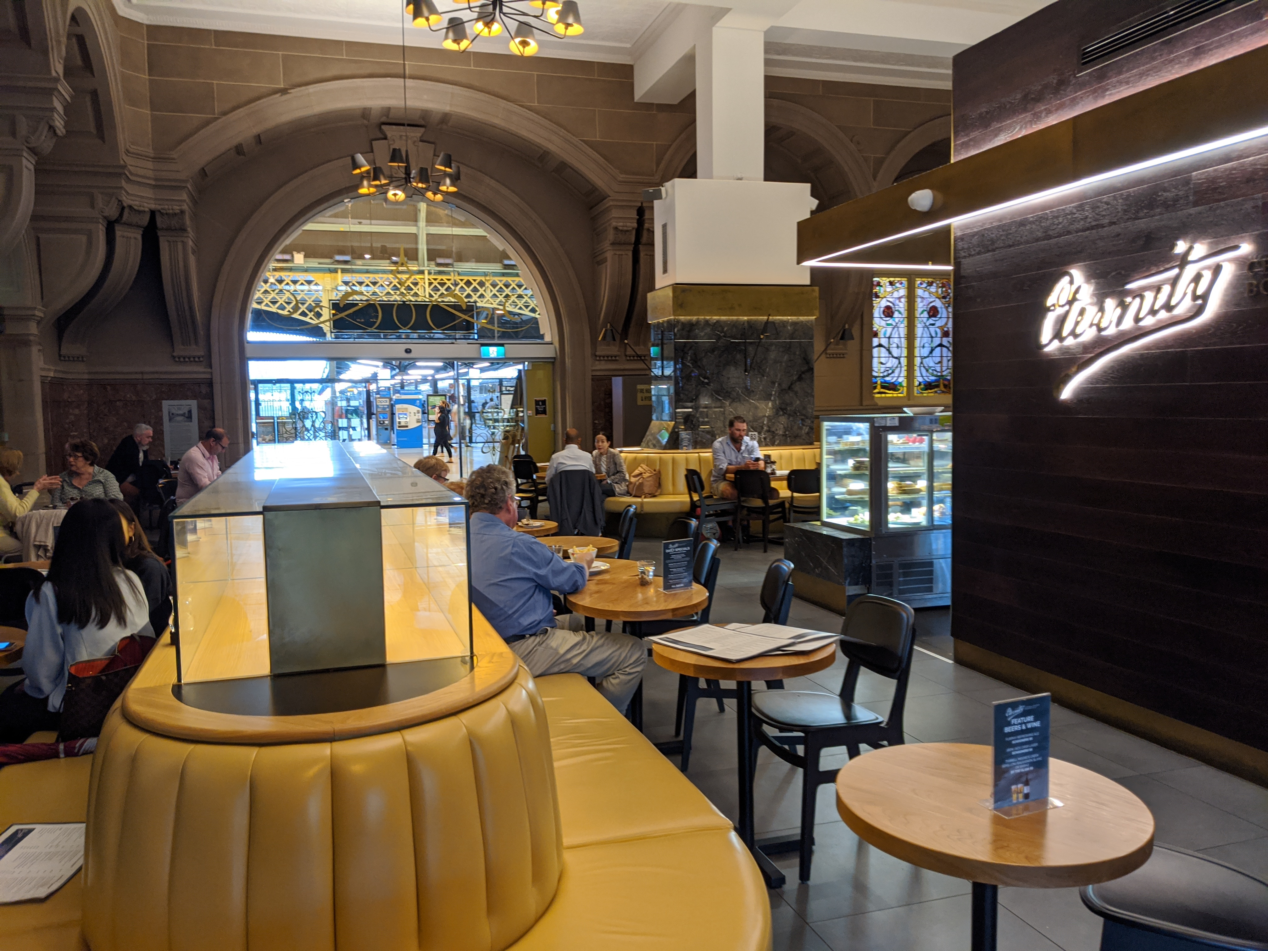 Eternity Cafe in Central Station, Sydney